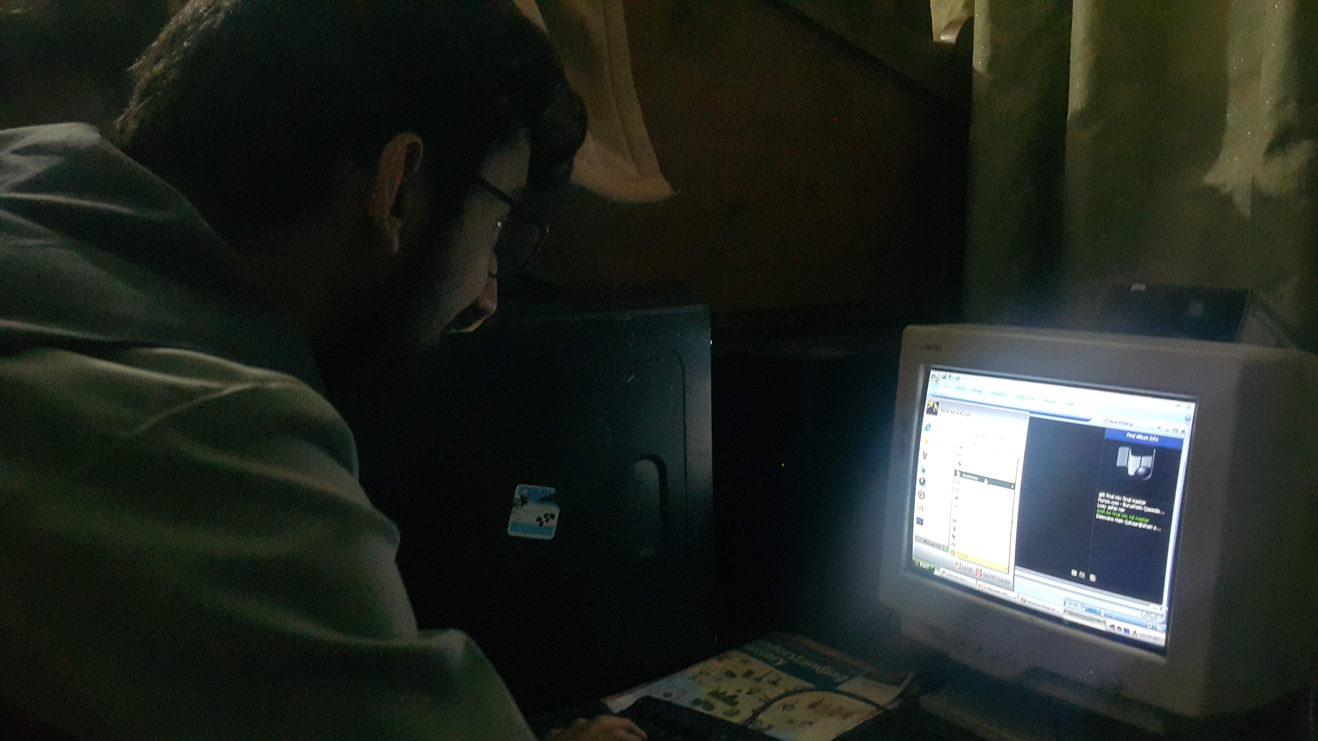 A person in 2019 photo working on a 2002 tower PC computer consisting of a Compaq CRT monitor.